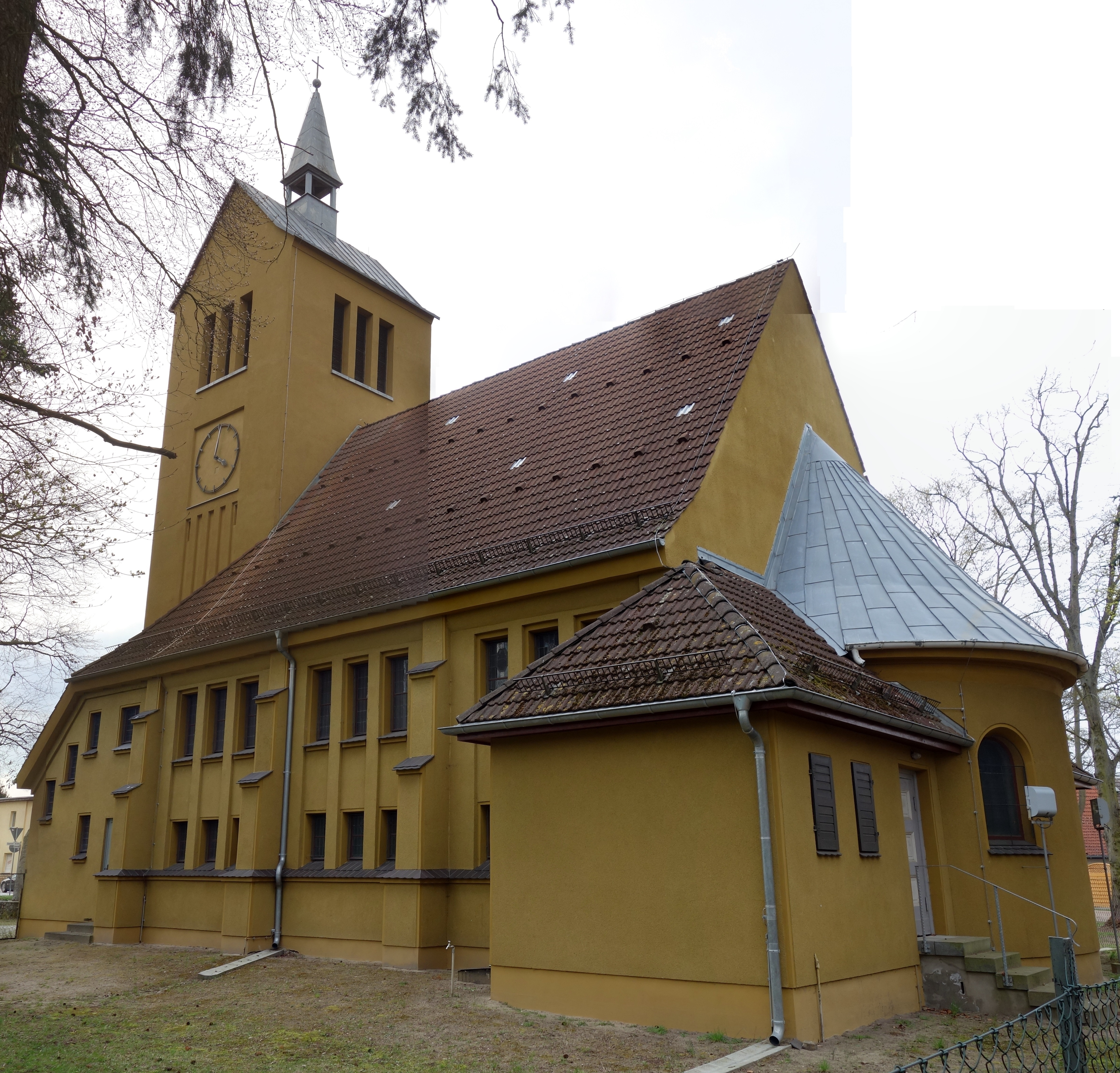 South-eastern view of church in Sachsenhausen, Oranienburg municipality, Oberhavel district, Brandenburg state, Germany